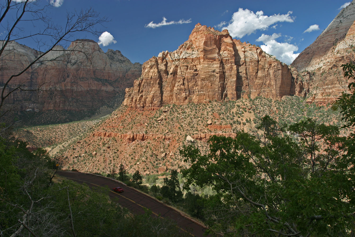 A view of the Zion-Mount Carmel Highway with spectacular scenery in all directions. Taken on 13th of September, 2004.